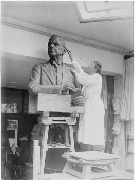 Gra Rueb working on the Lovink monument in her studio, around 1940-1941